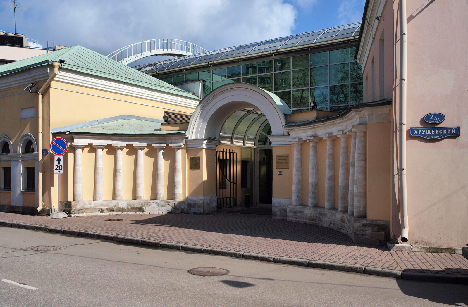 Alexander Pushkin museum in Moscow, vies from Khrushchovsky Lane